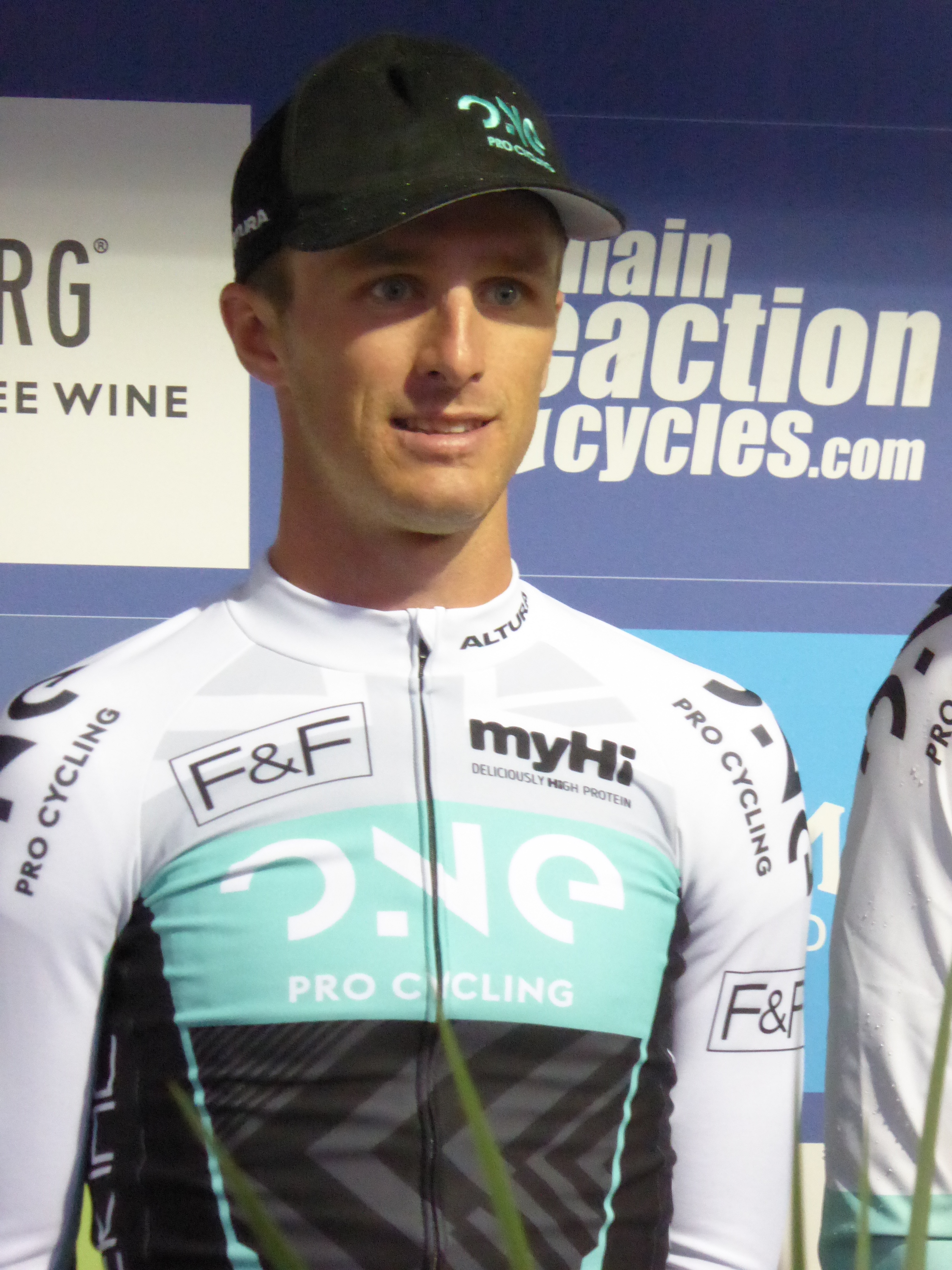 Peter Williams (ONE Pro Cycling), pictured at the 2016 Tour of Britain team presentation in Glasgow on 3 September 2016.